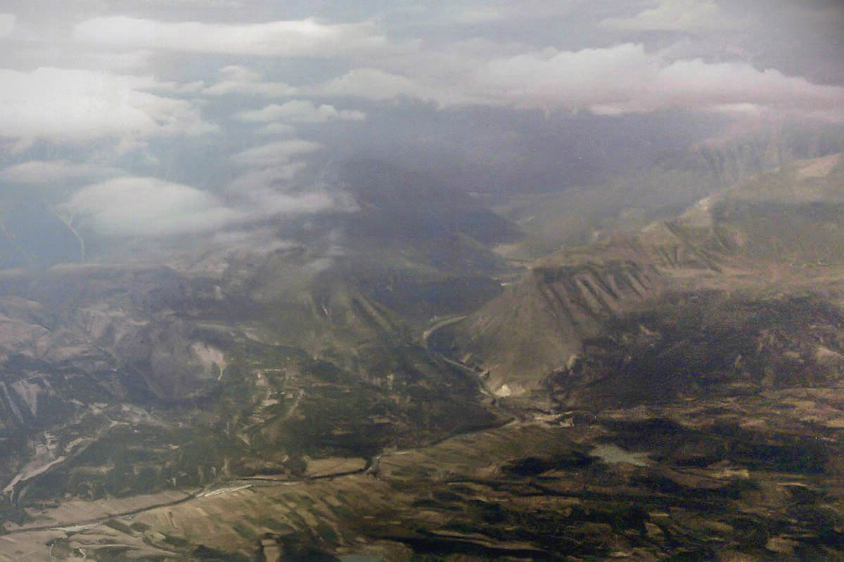 Mountains in Southern Albania: Vjosa River with Gorge of Këlcyra